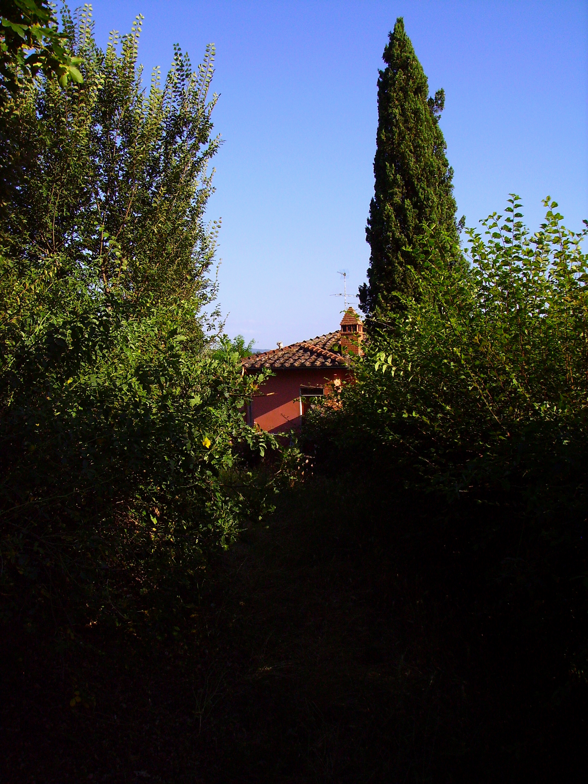 The Castellare Farm, formerly one of the gates of the Castle of Montevarchi